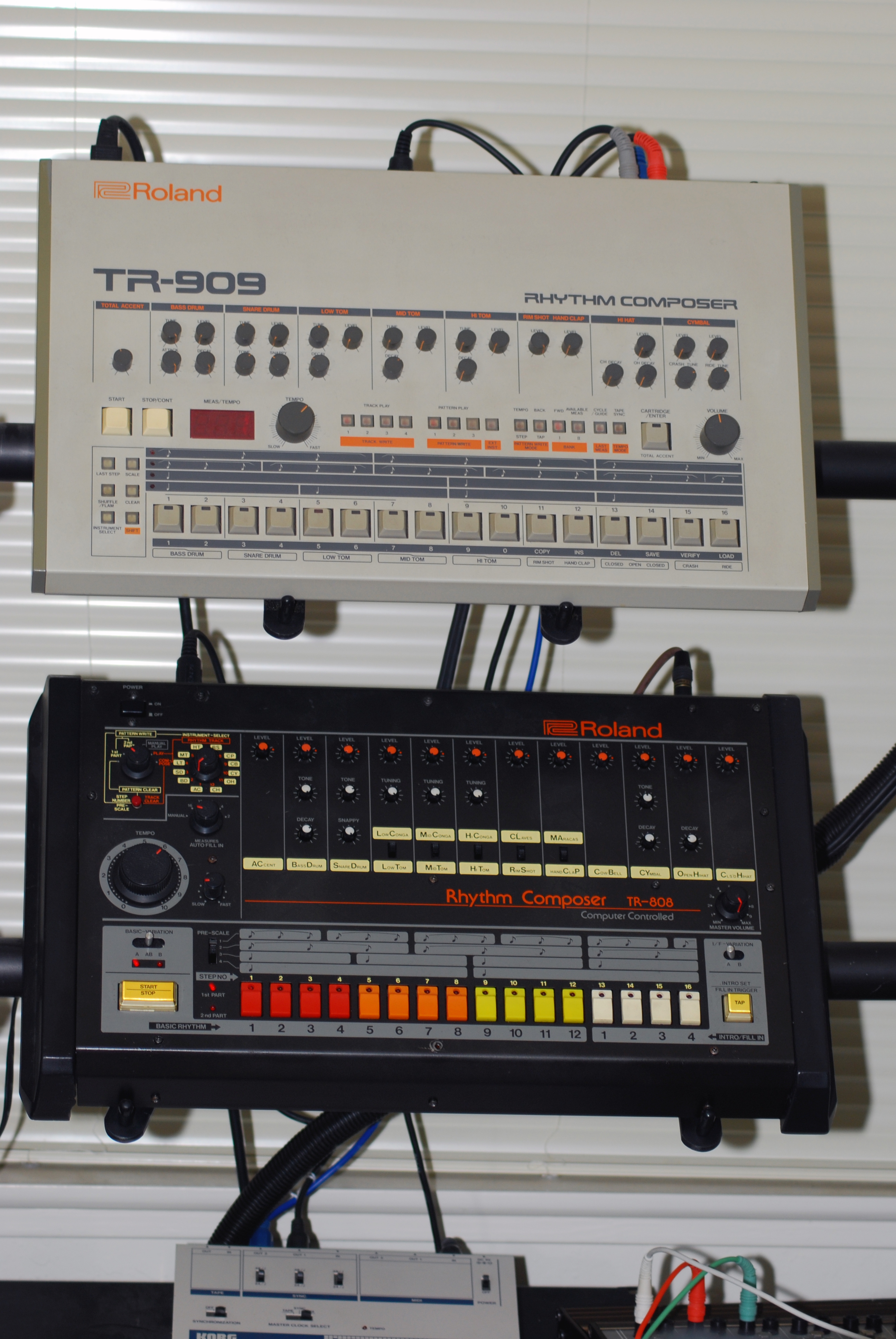 Roland TR-808 & 909